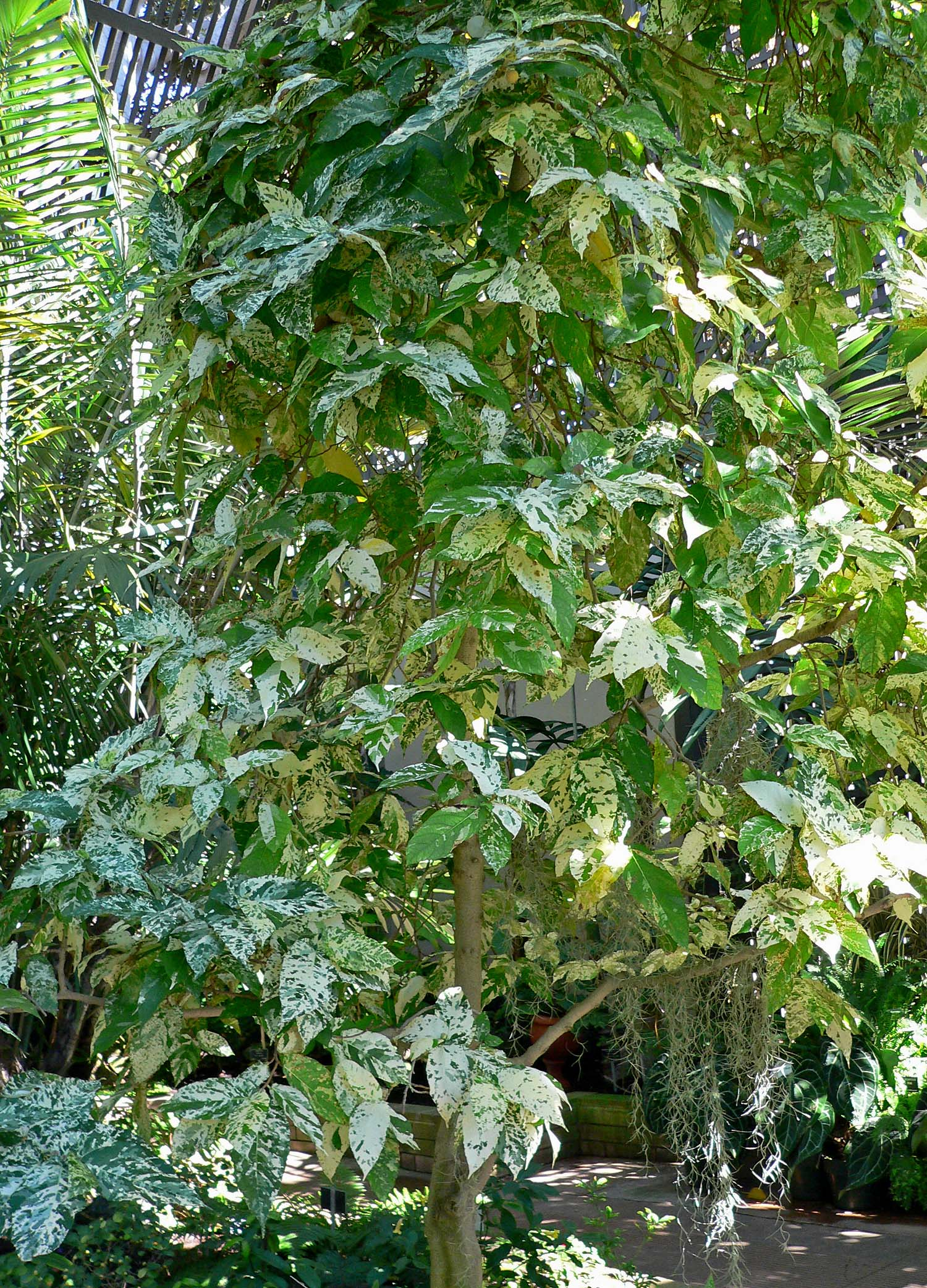 Photo of Ficus aspera at Balboa Park